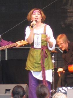 Pauliina Lerche at the Bardentreffen, Nürnberg, 2008